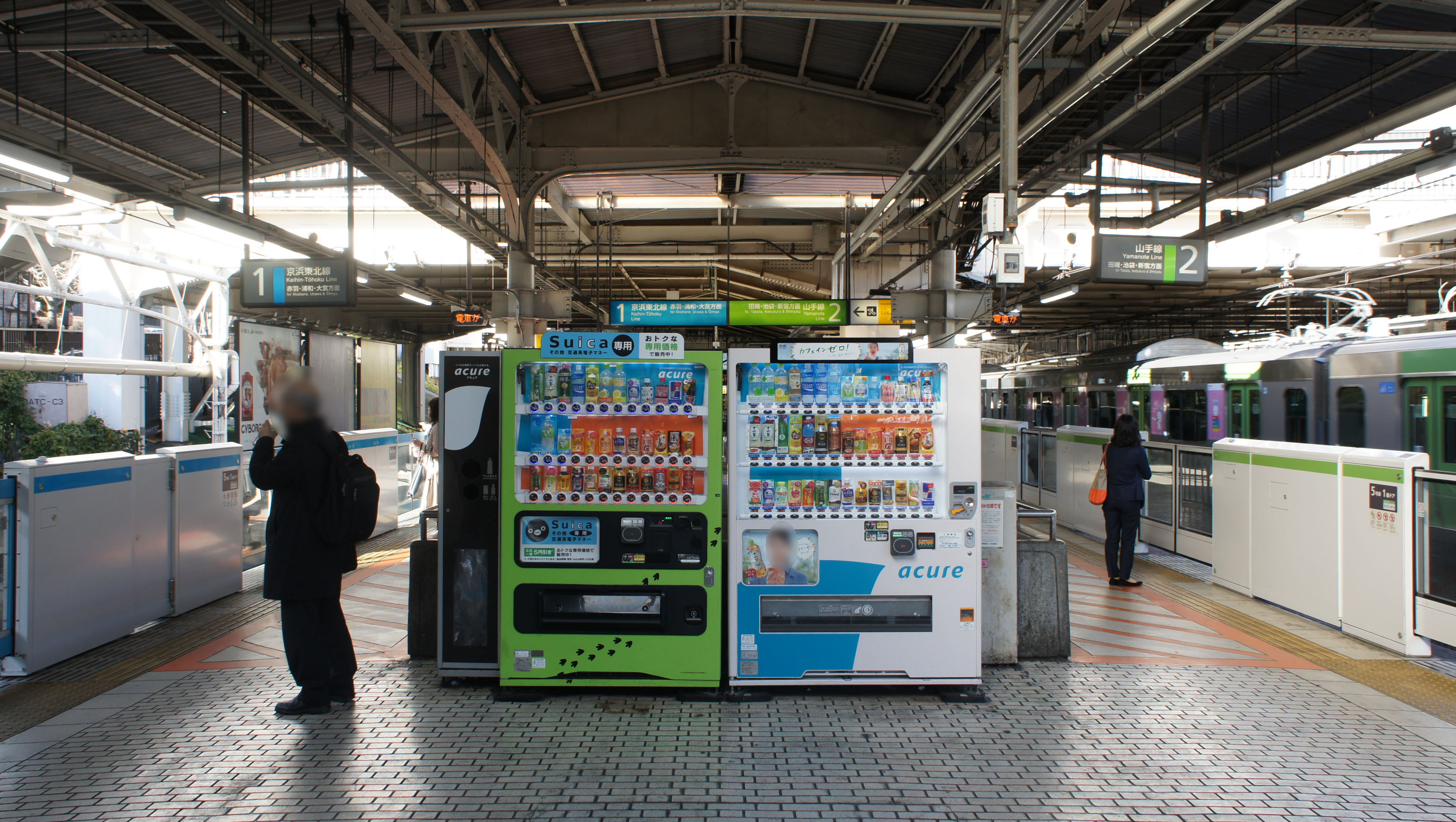 Platform 1・2 of JR Ueno Station Sony NEX-3 + E 18-55mm F3.5-5.6 OSS